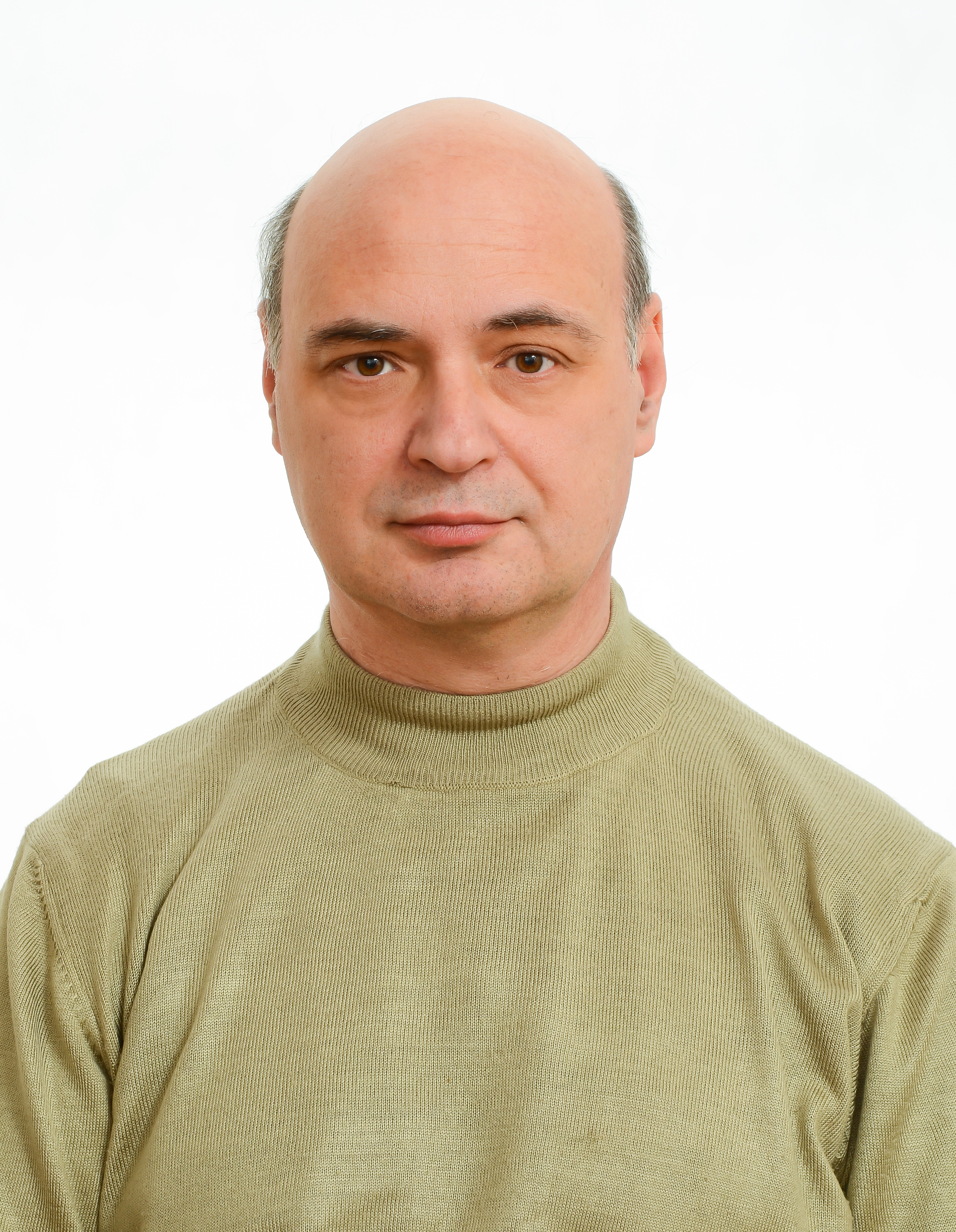 Prof Igor V Minin